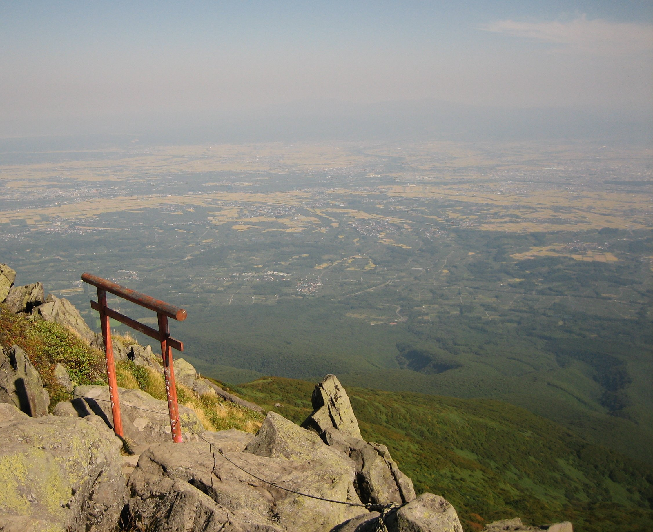 Looking east from the summit of Mt Iwaki, Aomori Prefecture, Tohoku, Japan.